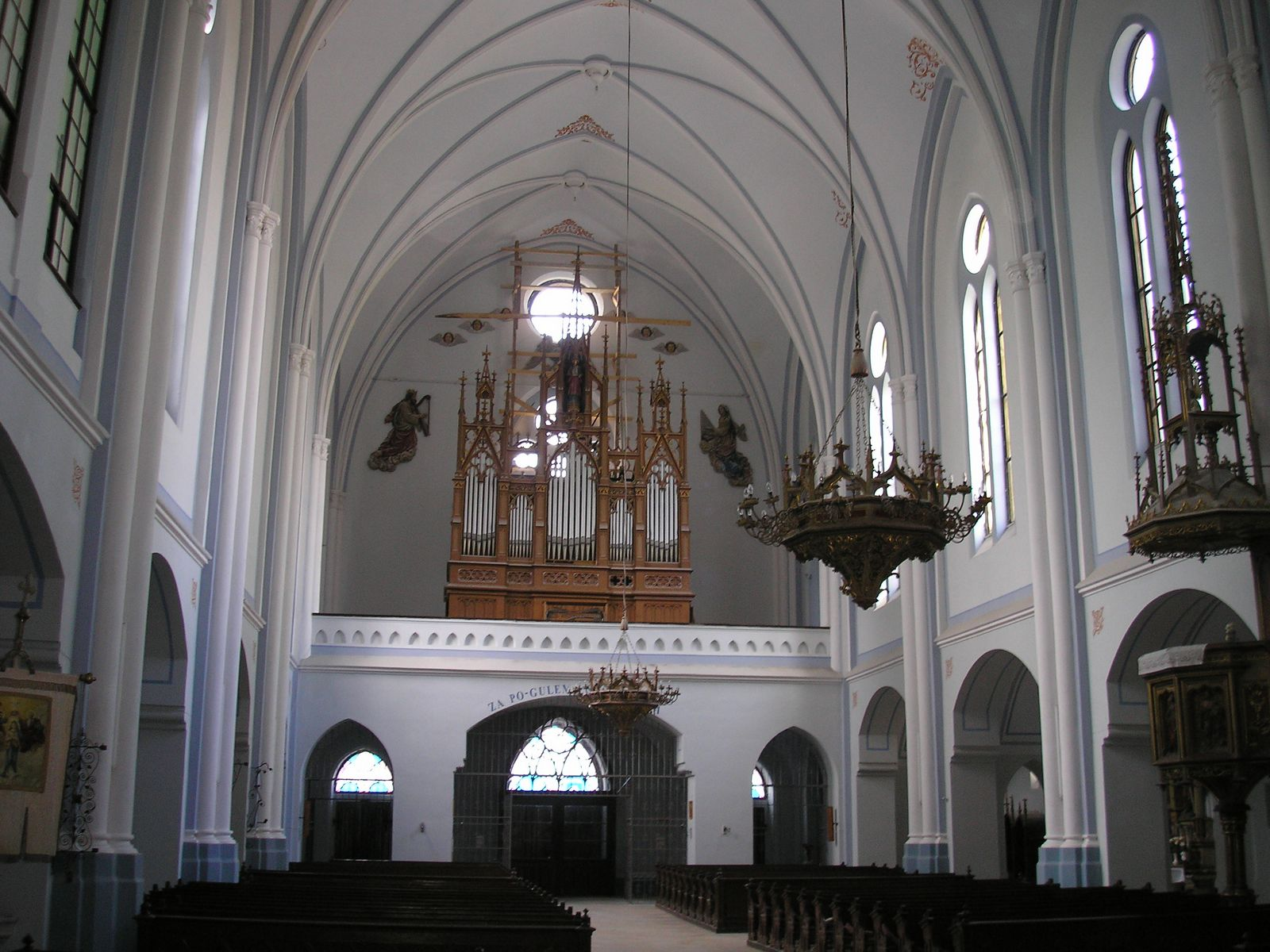 Banat Bulgarian Roman Catholic church in Vinga, Romania